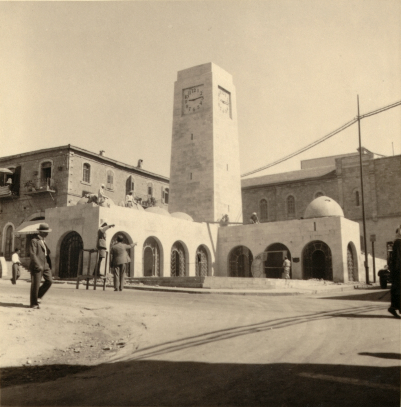 Part I. 1934. Clock-tower removed from Jaffa Gate to Allenby square being torn down. (Taken for Ashbee).